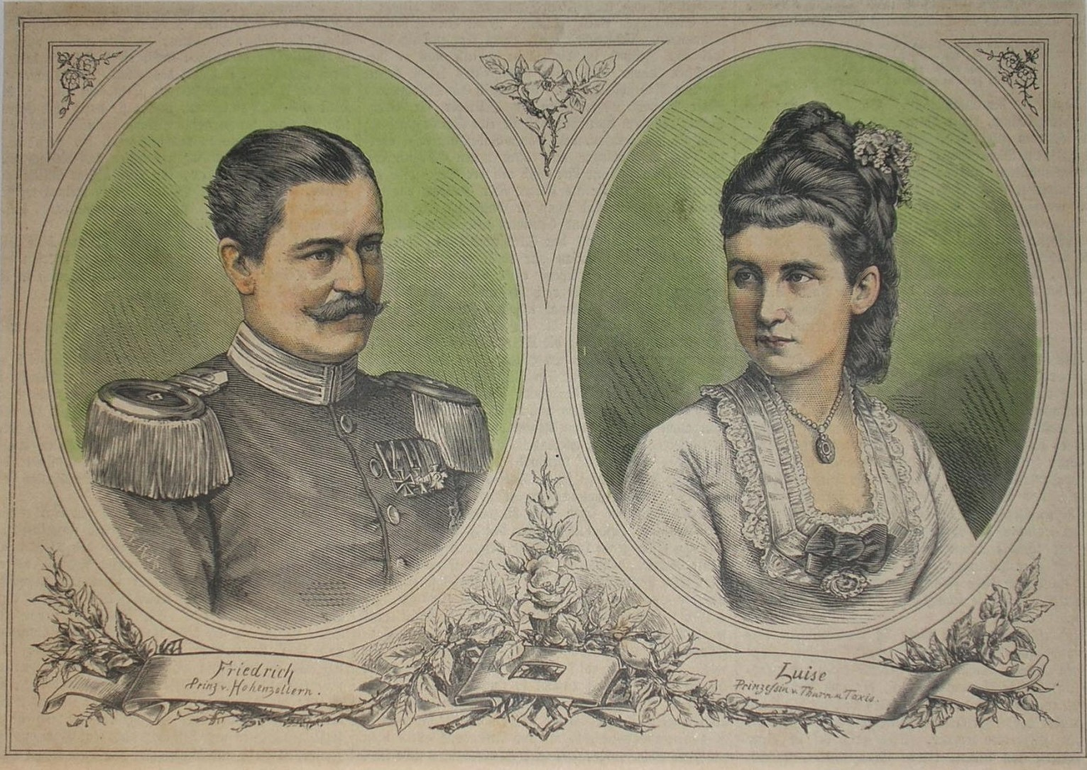 Prince Frederick of Hohenzollern-Sigmaringen and Princess Louise of Thurn and Taxis